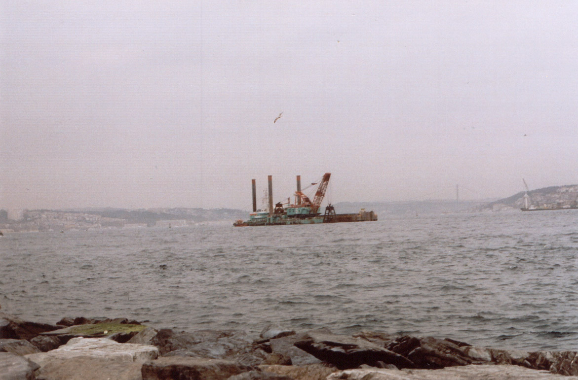 Building the first intercontinetal subway